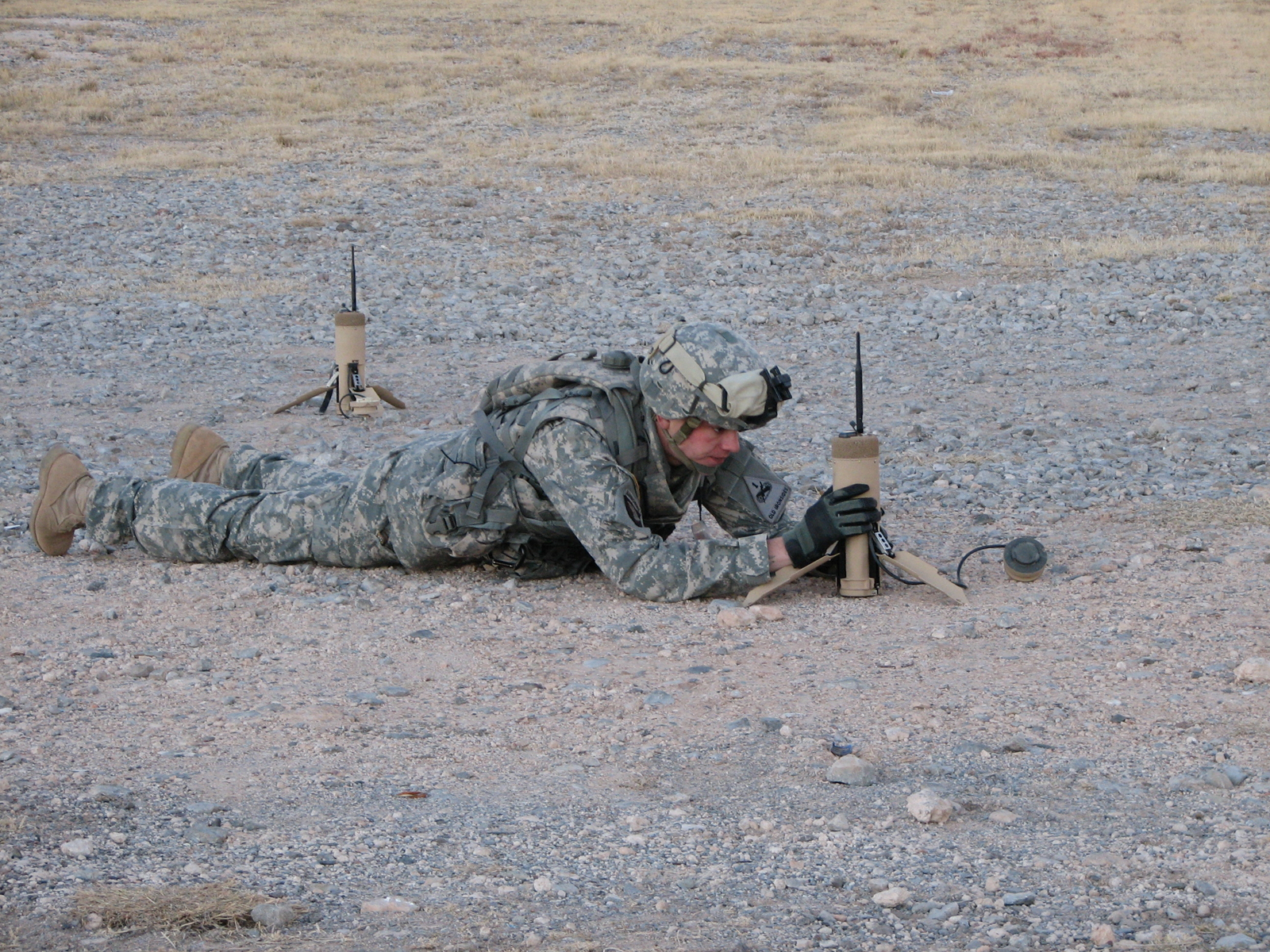 Planting an T-UGS Sensor field at Fort Bliss